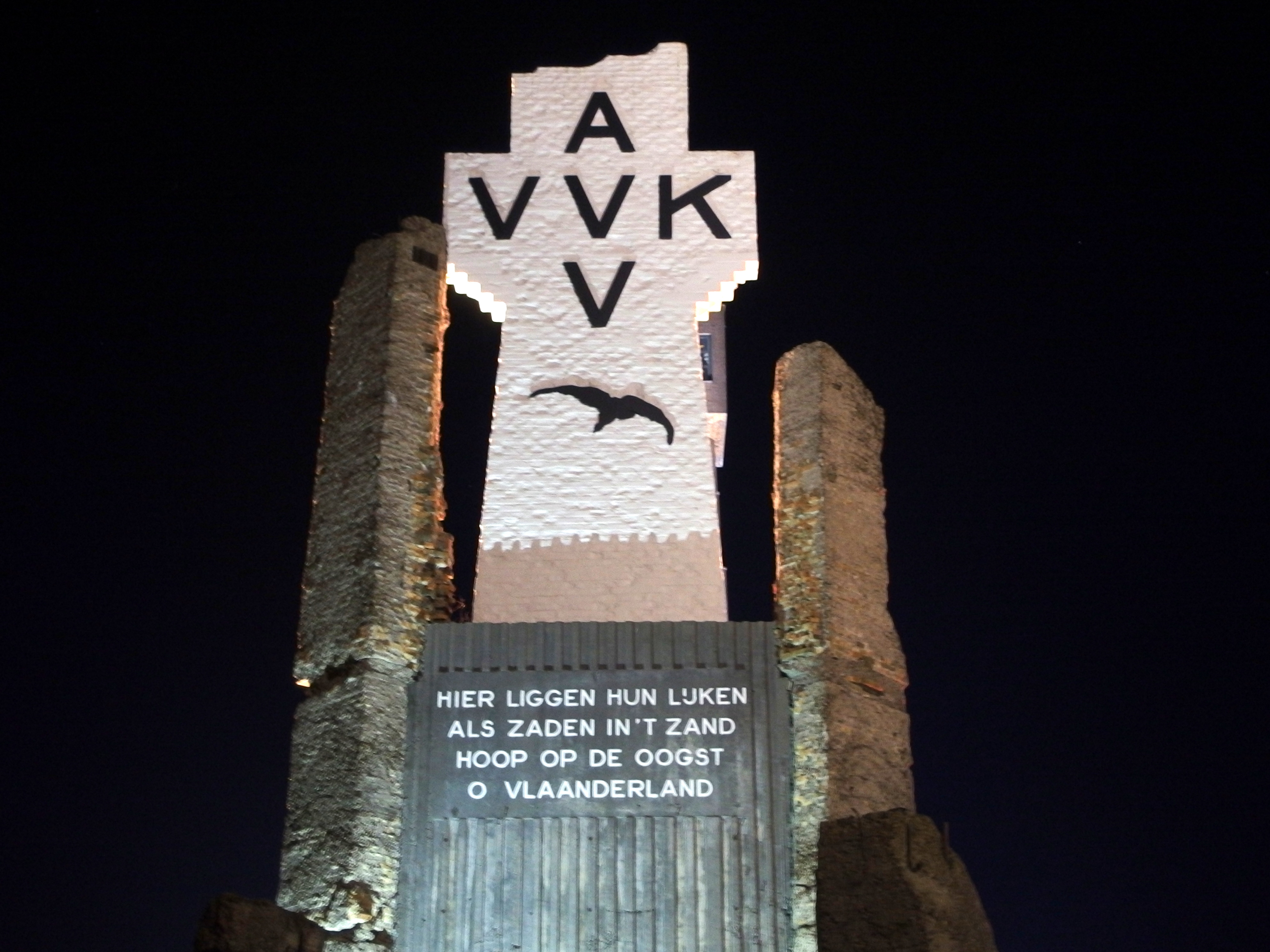 2014-11-11: IJzertoren in Diksmuide.